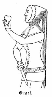 Picture of a "gugel" or liripipe, a type of hood with a trailing point, popularly worn in medieval Germany.